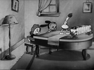 Screenshot from Mechanical Man, a 1932 Walter Lantz cartoon.